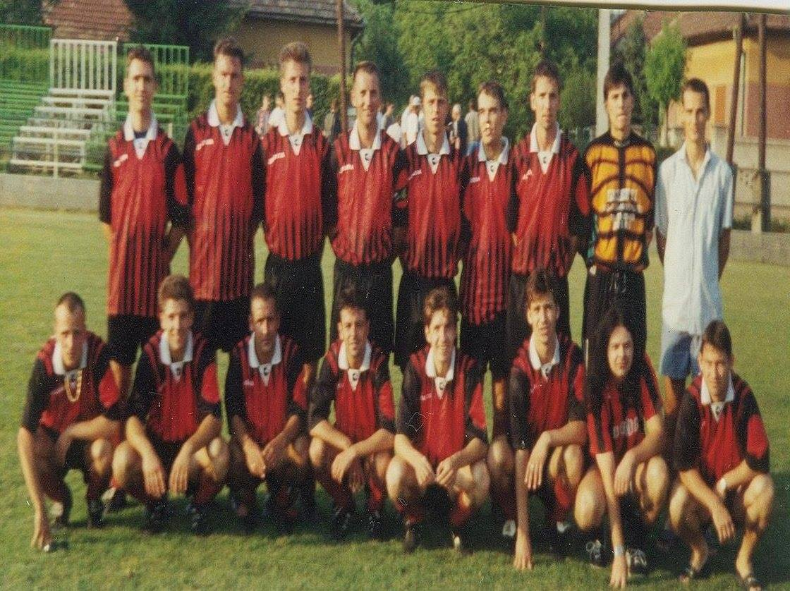 The team after the last match of the third division in 2000 (corrected version)